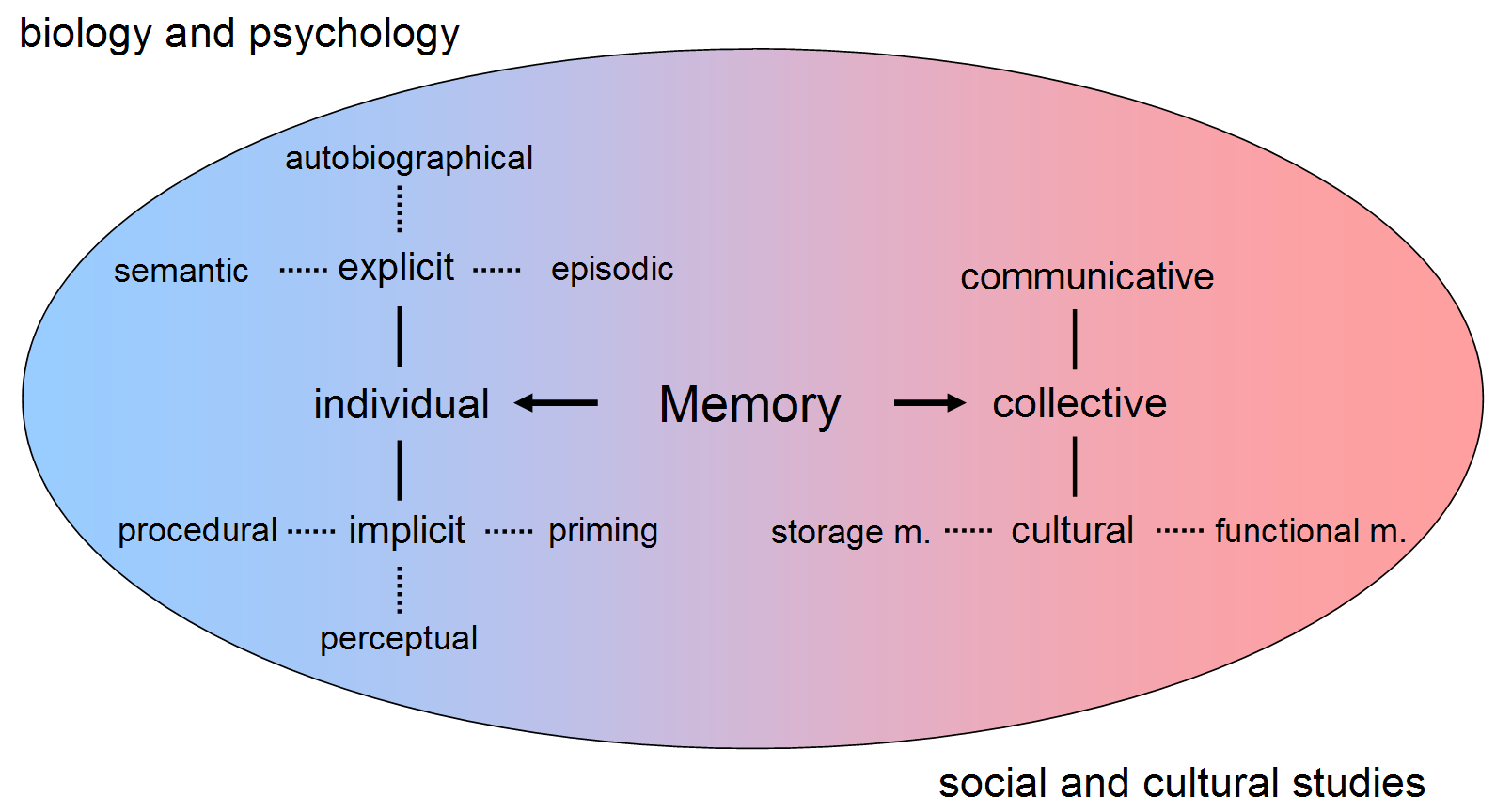 This chart gives a detailed overview of the term "memory" as used in various branches of academia.